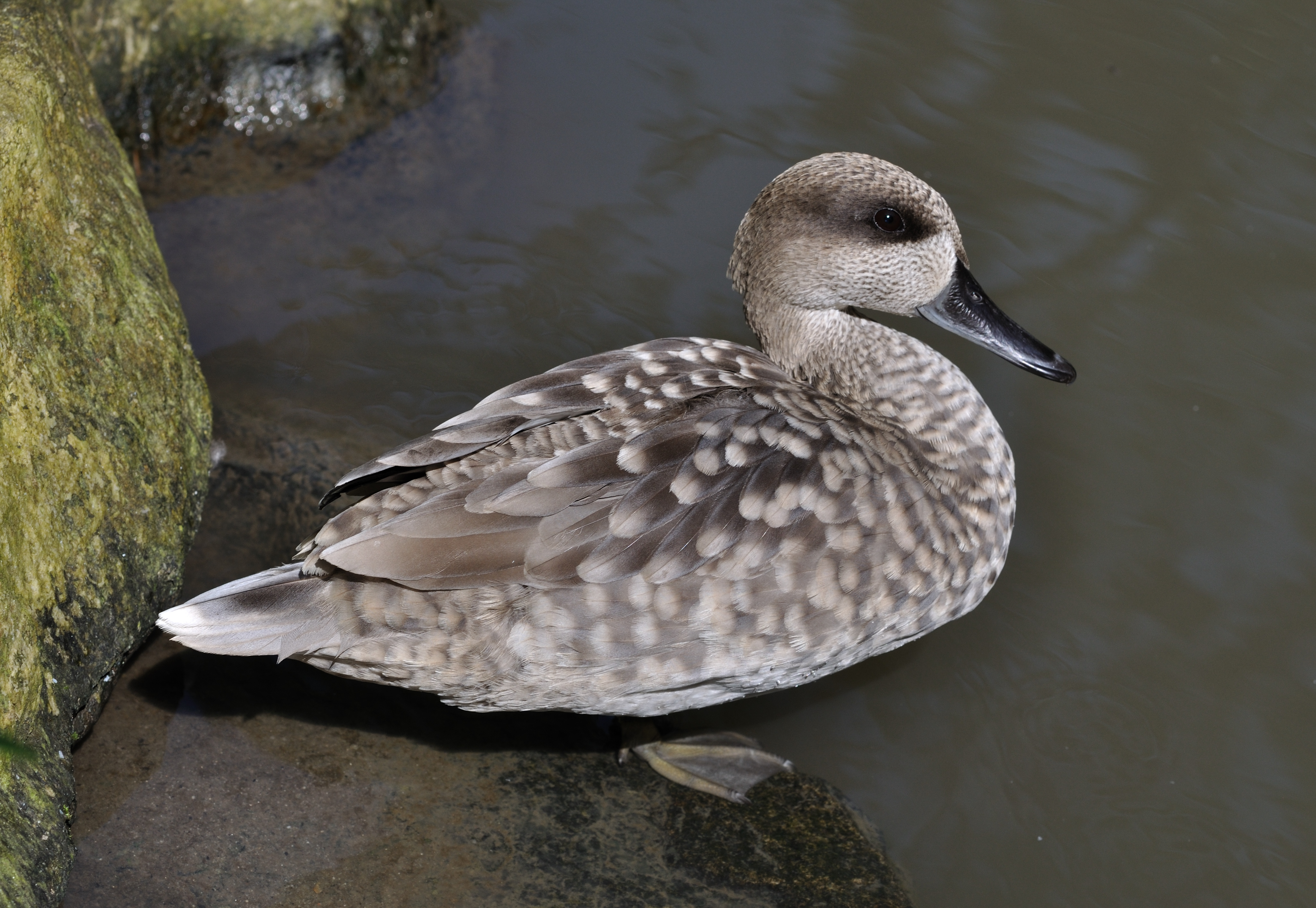 Marbled Duck (Marmaronetta angustirostris) in the Opelzoo, Kronberg/Königstein, Germany.